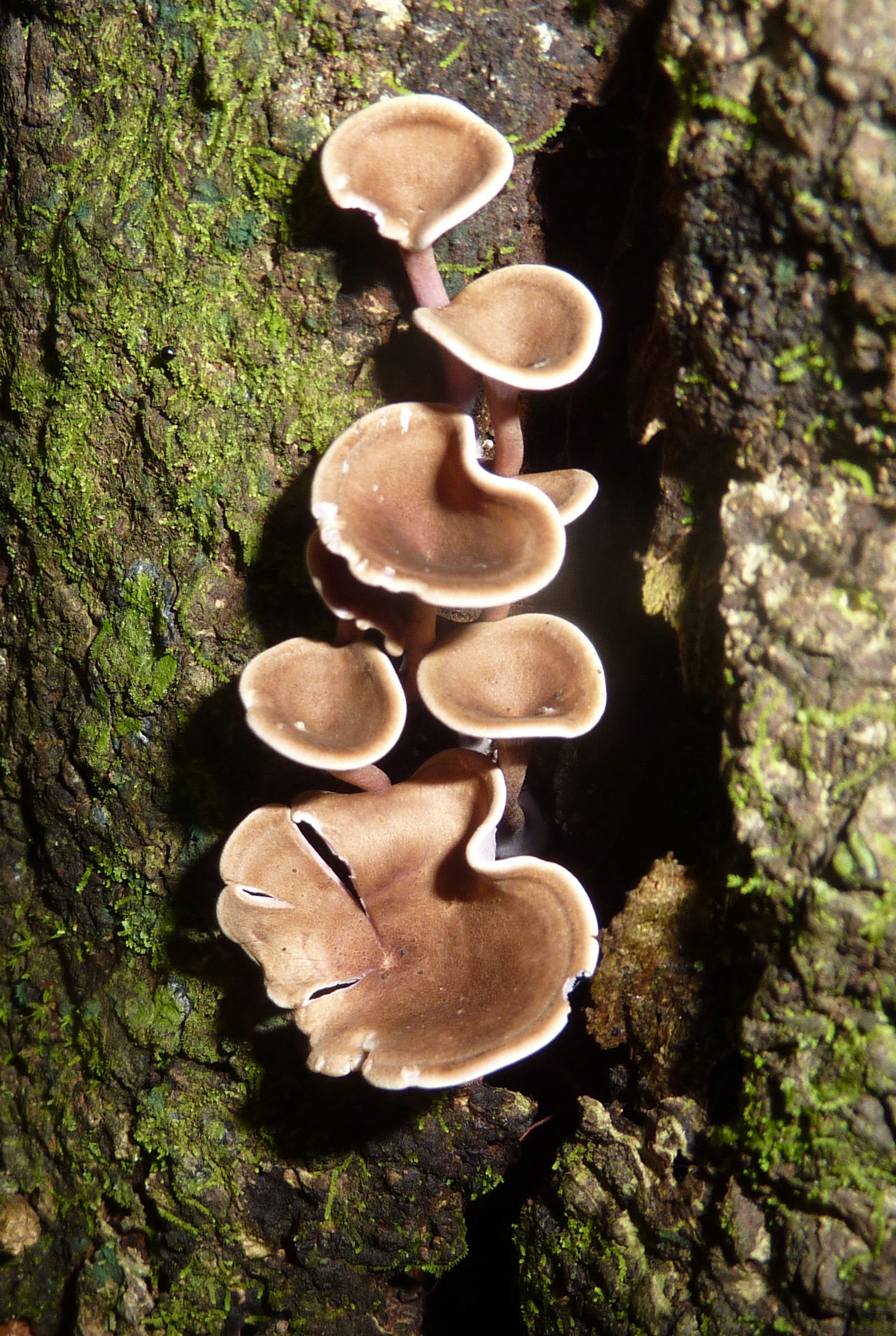 Fruit bodies of the agaric fungus Trogia cantharelloides. Photographed in Gamboa, Balboa District, Panama Province, Panama.